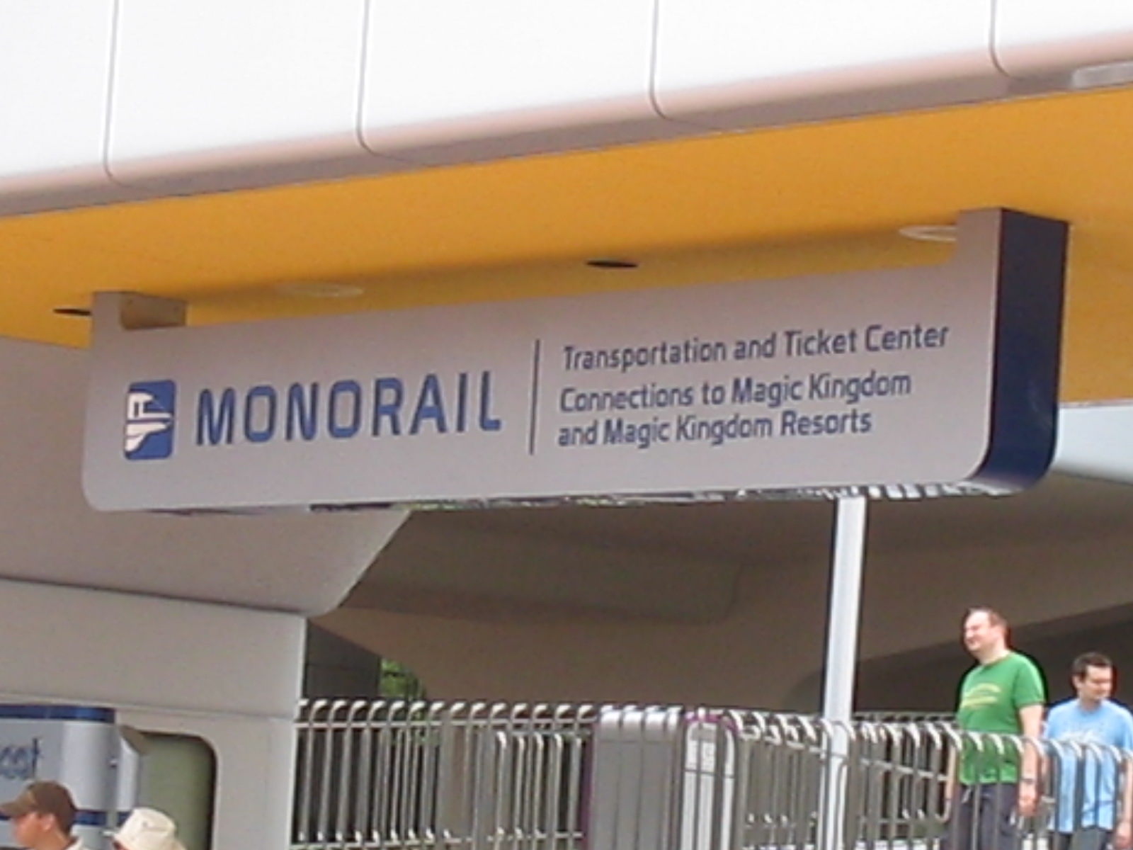 Monorail Disney World, Orlando, May 2005